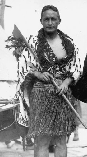 Pei Te Hurinui Jones, (1898-1976) Māori scholar and author